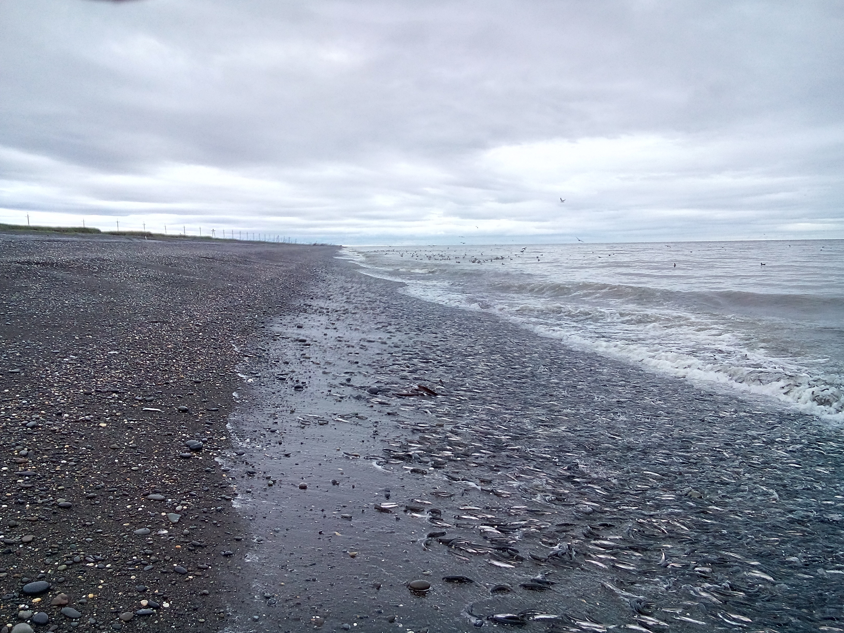 Камчатка, Россия